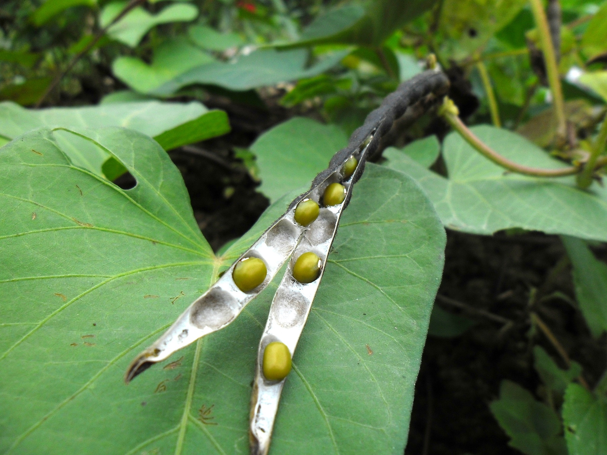 High resolution image of Mung Beans, (Vigna radiata) dried bean pods being grown and photographed by Earth100 in Hong Kong.